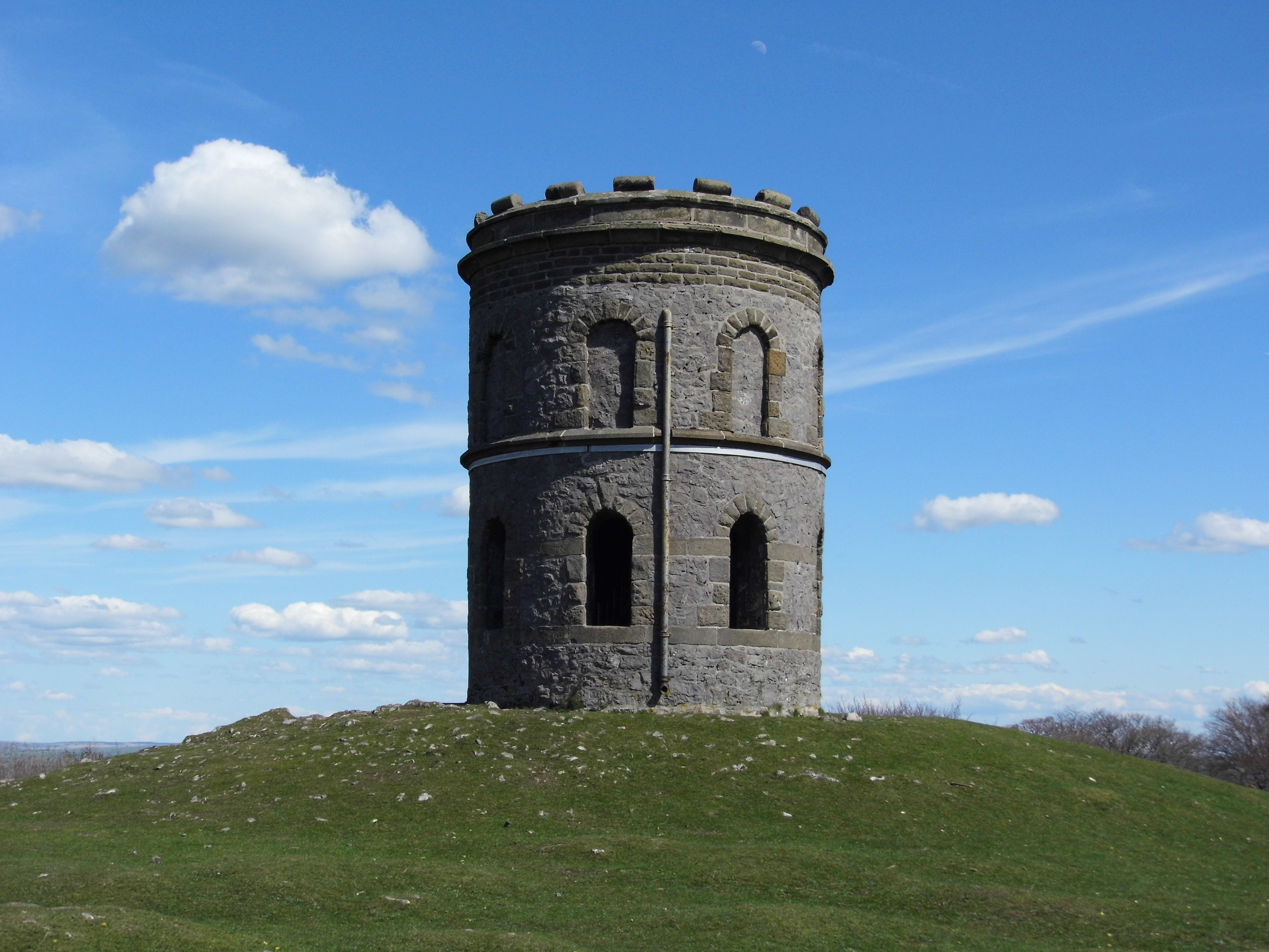 Grinlow Tower Wikidata has entry Q26550393 with data related to this item.